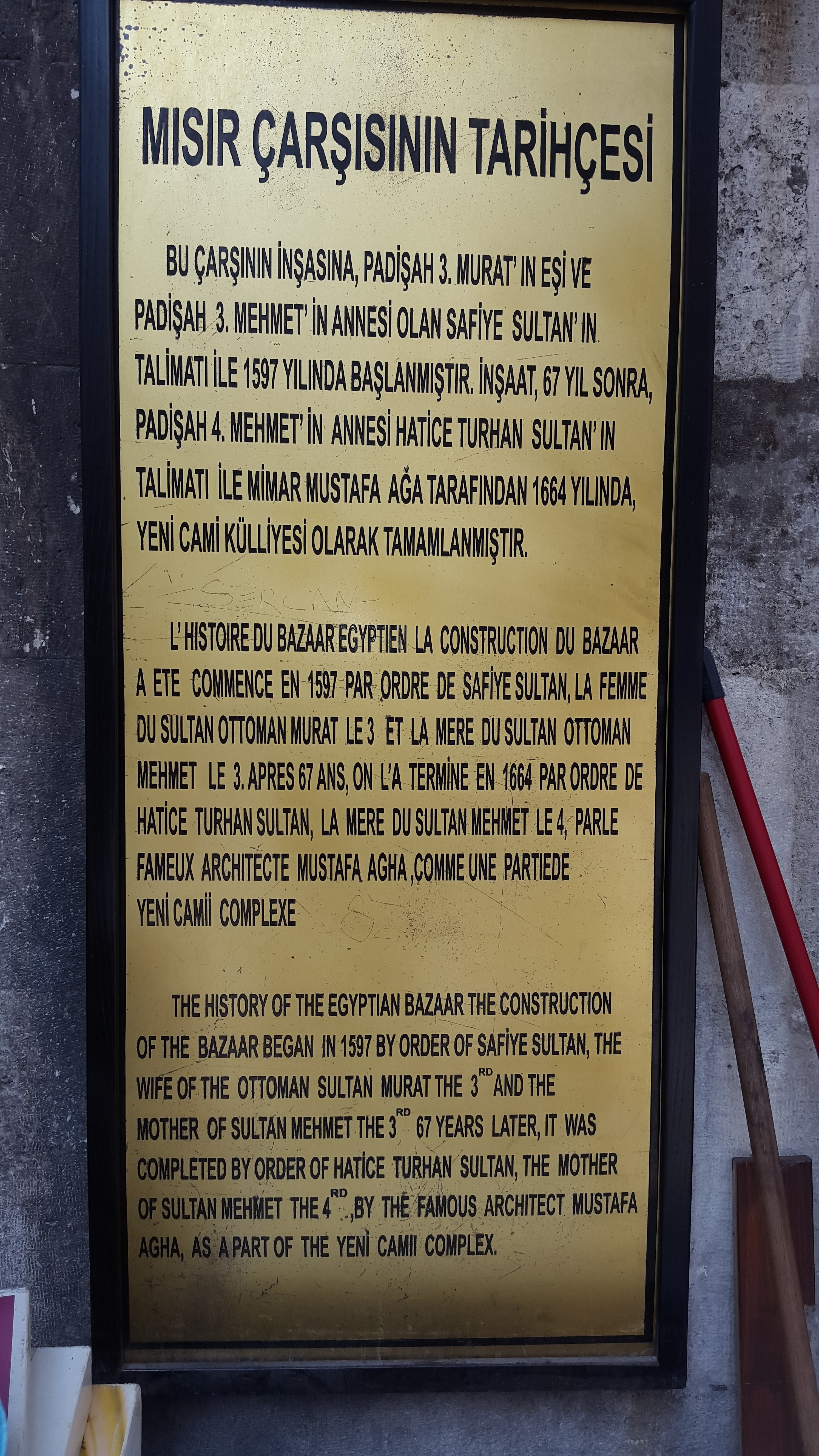 About Spice Bazaar